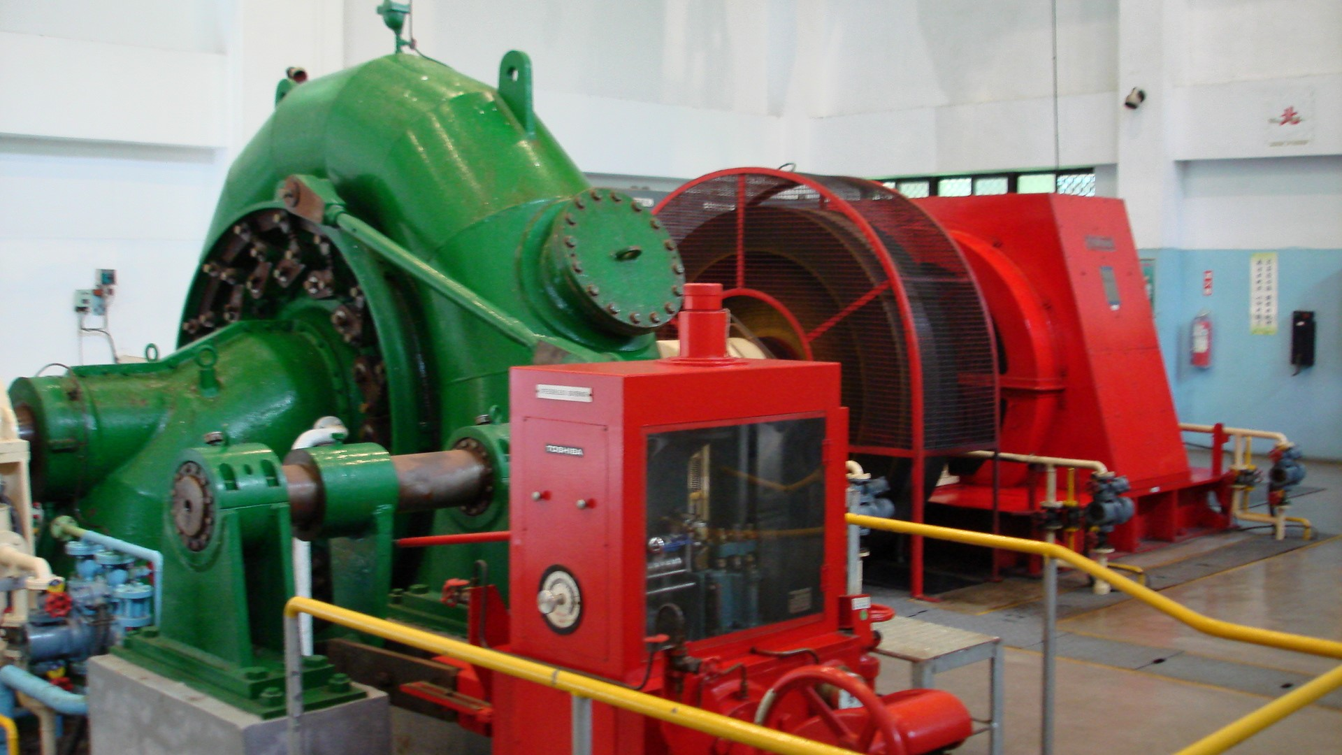 Taiwan power Company The Eastern Power plant Qing-Lu Hydroelectricity